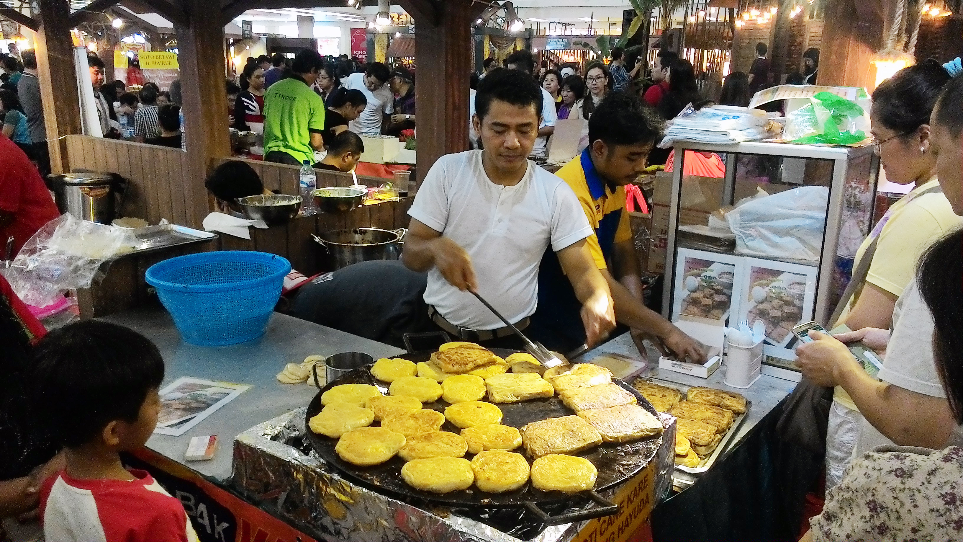 Martabak and roti cane preparation in Martabak Kubang food stall, during Kampoeng Legenda food festival, Mal Ciputra, West Jakarta, Indonesia.